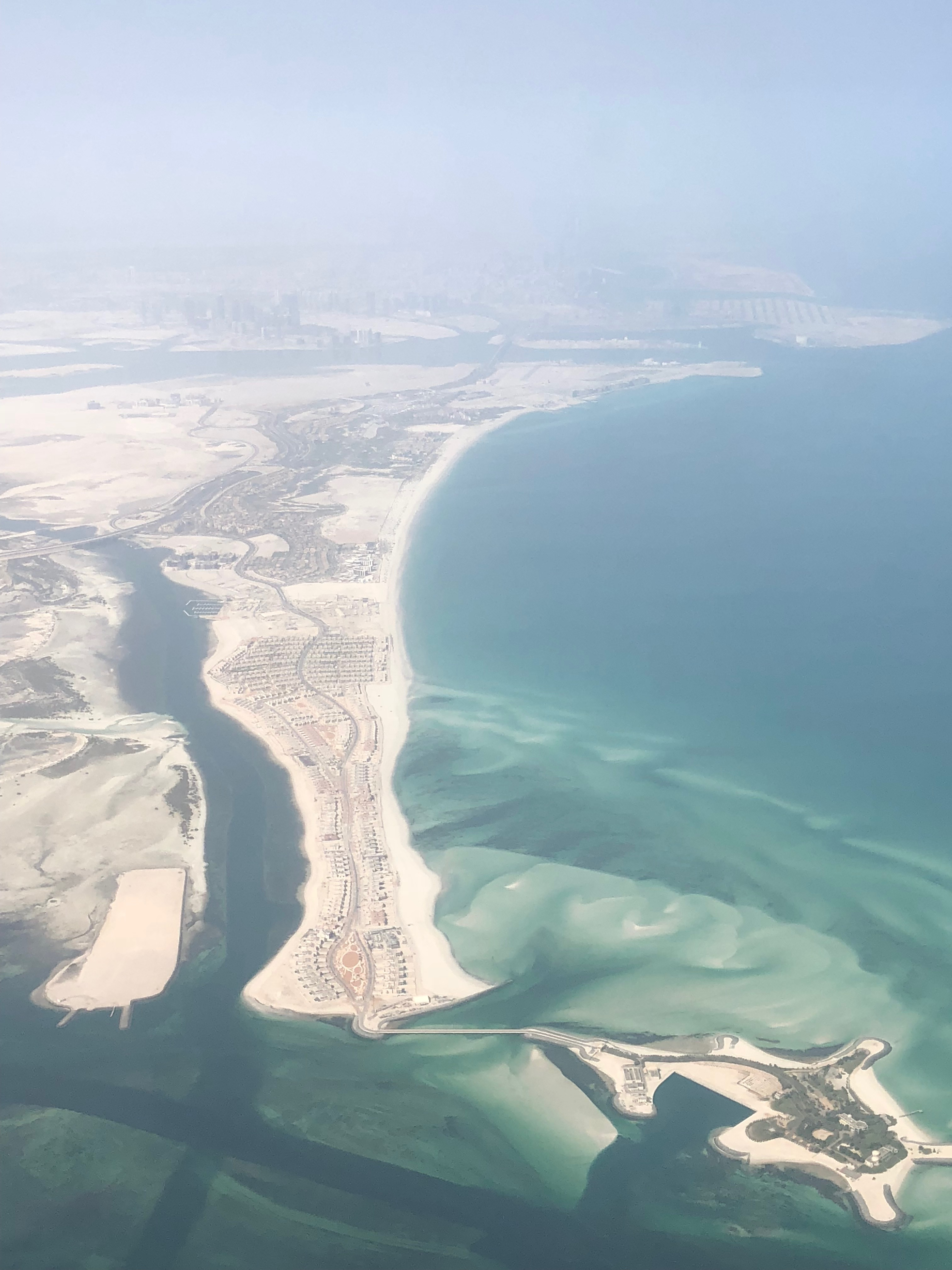 An aerial view of the tip of Jubail and Saadiyat Islands, Abu Dhabi